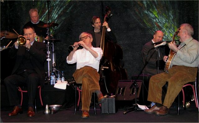 Woody Allen (born Allan Stewart Konigsberg; December 1, 1935) is an American film director, writer, actor, comedian, and playwright.